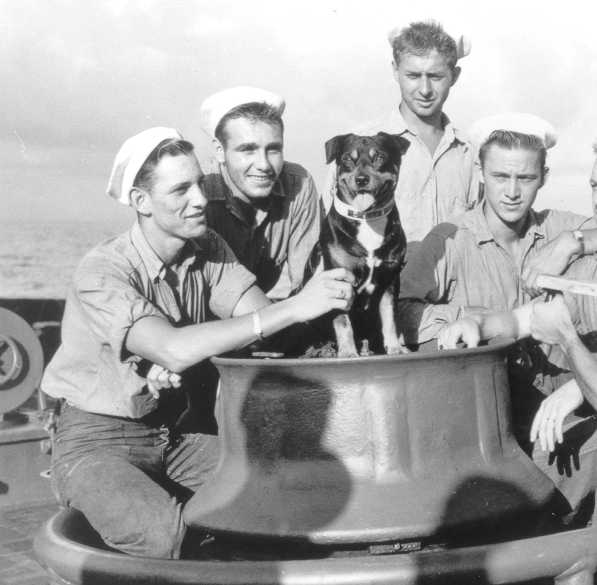 USCGC Campbell (WPG-32) crew and mascot, Sinbad, in the North Atlantic. Here Leonard Webb, Pho.M. 1/c, is shooting movies of Sinbad at sea. Stl. Louis area shipmates are around him on board the Cambpell. Sindbad was the most famous U.S. Coast Guard mascot that ever sailed the seas. Sinbad, a mixed-breed puppy, joined the crew in 1938, and he stayed on board, minus a few AWOL incidents, until 1949, when he retired to a shore station.